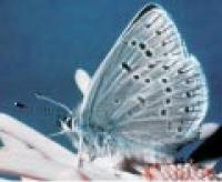 Mission blue butterfly - (Aricia icarioides missionensis. syn: Icaricia icarioides missionensis’’. Source U.S. Fish and Wildlife Service (PDF)